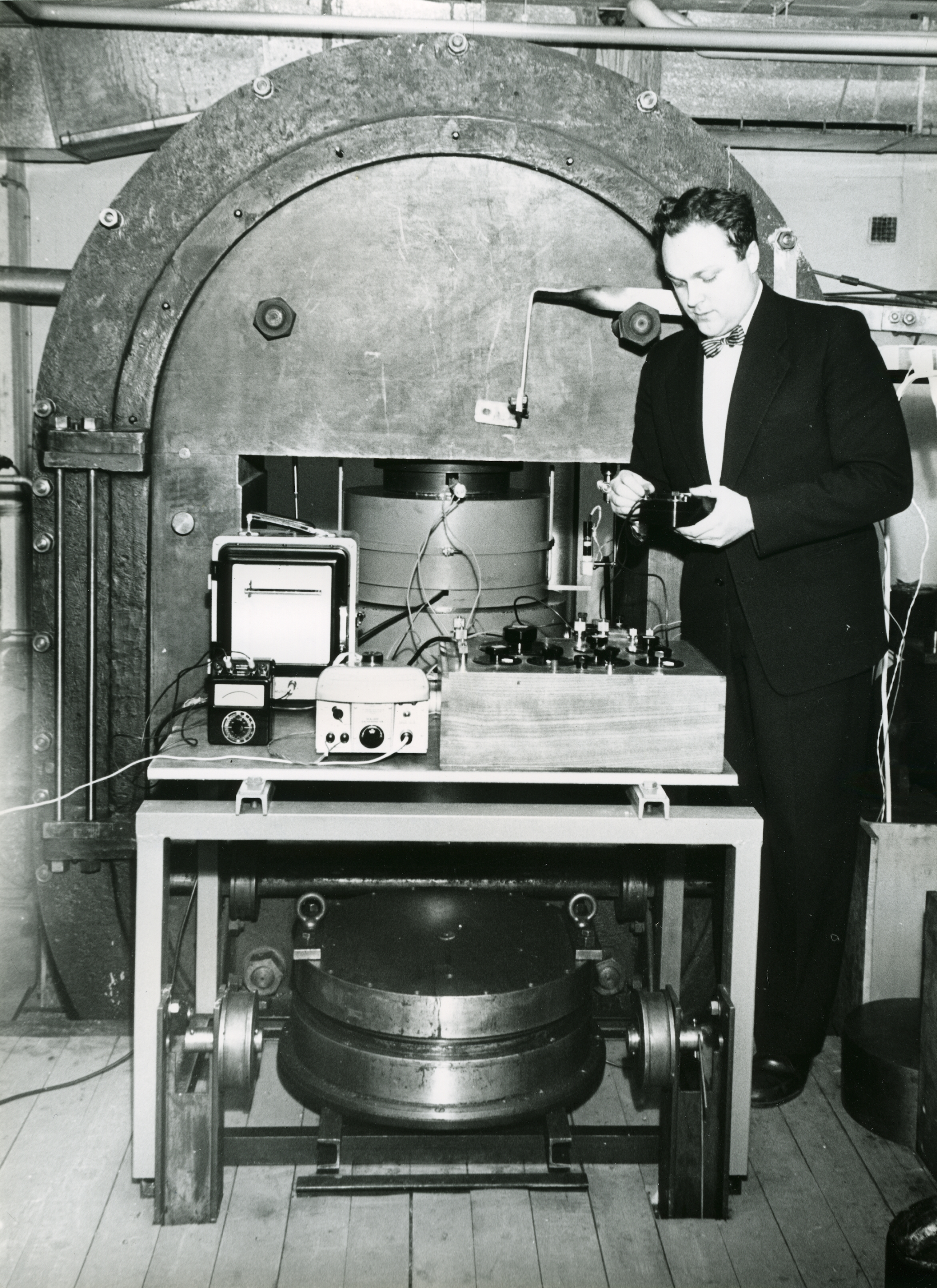 This is the QUINTUS press, with which the world’s first synthetic diamonds were created 1953 in Stockholm. The press is held together with several kilometers of pre-stressed flattened piano wire. Erik Lundblad, the laboratory manager at ASEA, demonstrates equipment for temperature and pressure measurements. The high pressure apparatus is visible in the middle of the press.